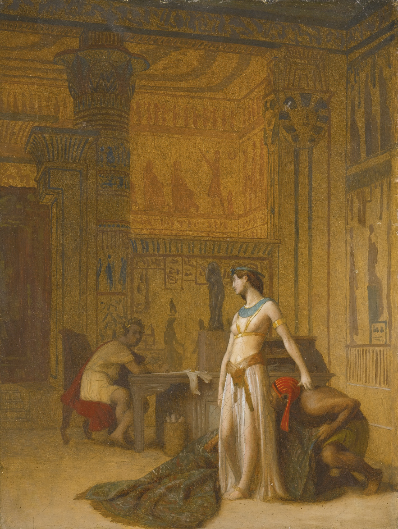 Alternate version of the painting Cleopatra and Caesar.